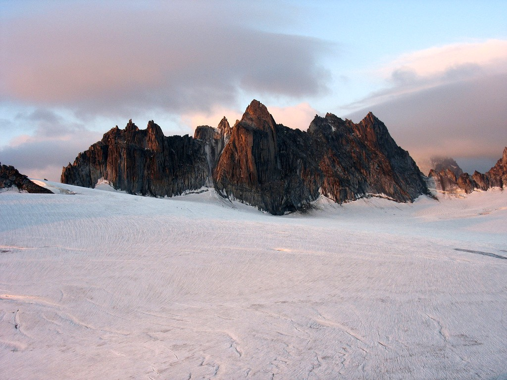 Aiguilles Dorées from Trient Glacier, Switzerland